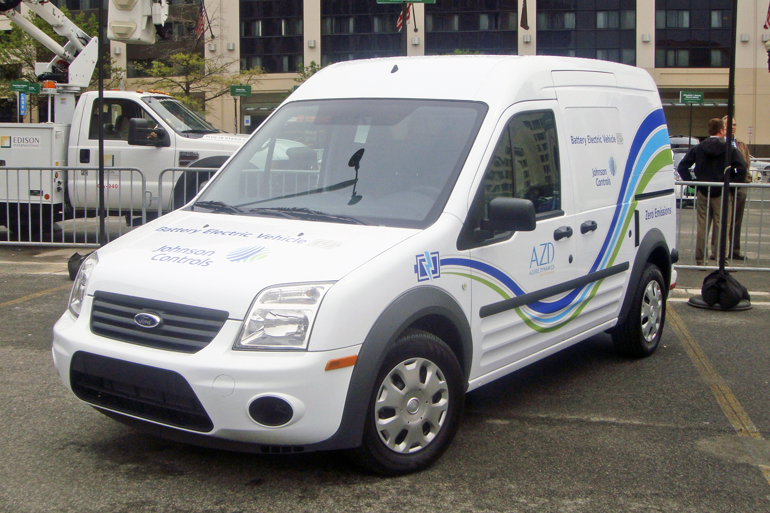 Azure Dynamics/Ford Transit Connect Electric at the Ride, Drive & Charge event organized by the EDTA, downtown Washington, D.C.